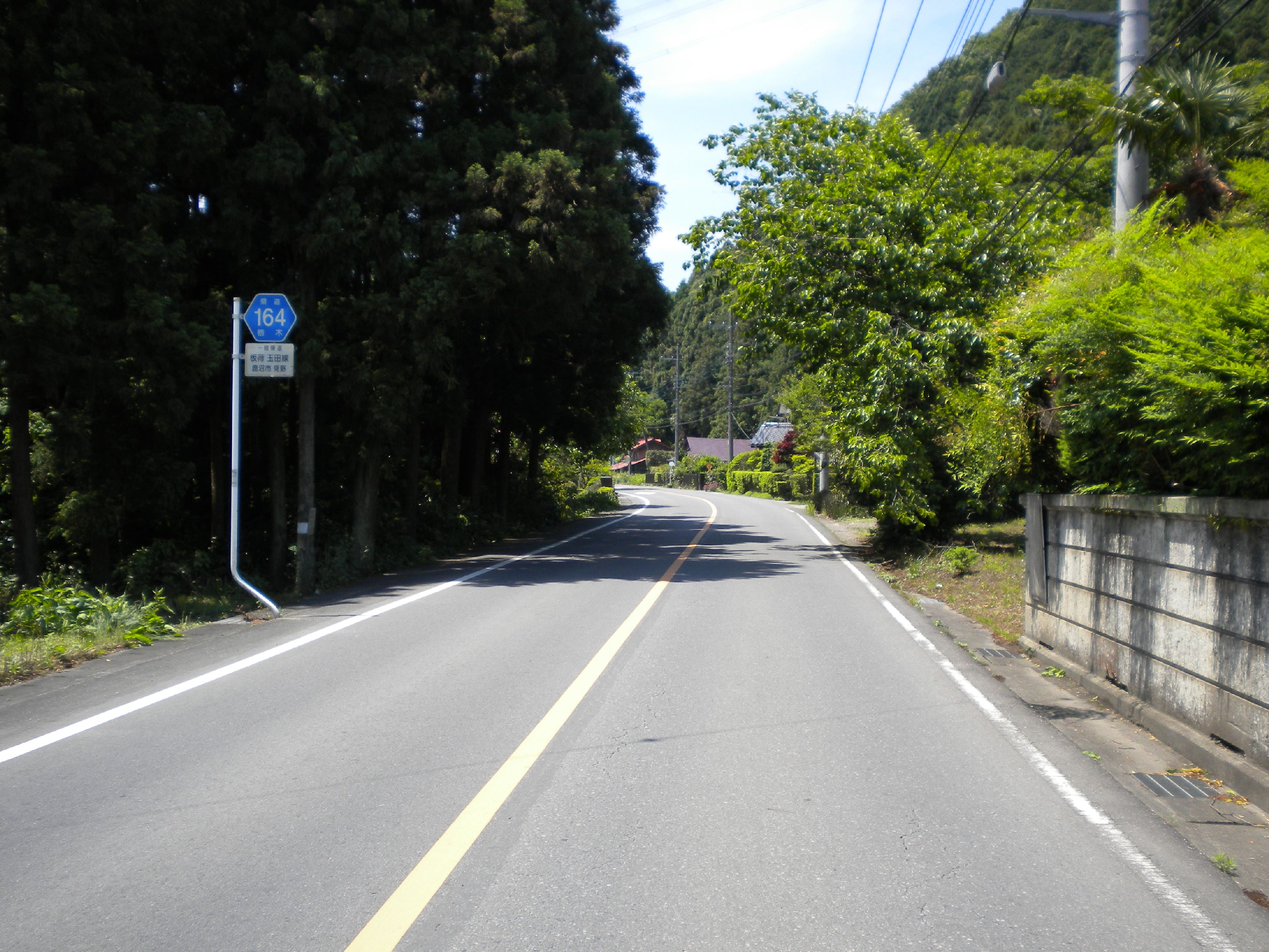 The Tochigi Prefectural Road Route 164 in Mino, Kanuma City